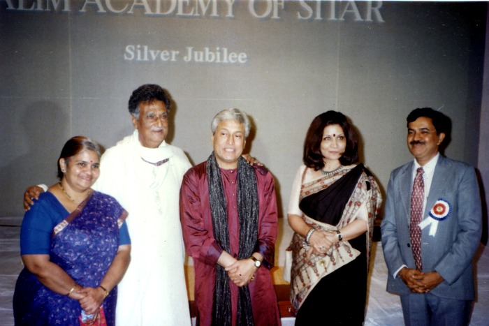 Sitarist Abdul Halim Jaffer Khan at the Halim Academy of Sitar with Chief guest Sarodist Ustad Amjad Ali Khan, and philanthropist Neela Shinde, his disciple Mrs. Jayshree Savkar (extreme left) and Mr. Sudhir Savkar